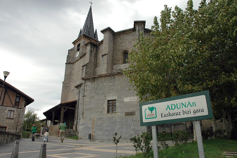 Church of Aduna.